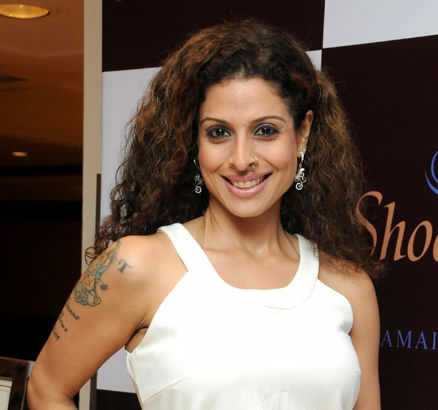 Tanaaz Irani at the launch of Samaira Tolani's chocolate boutique 'Shocolaat'